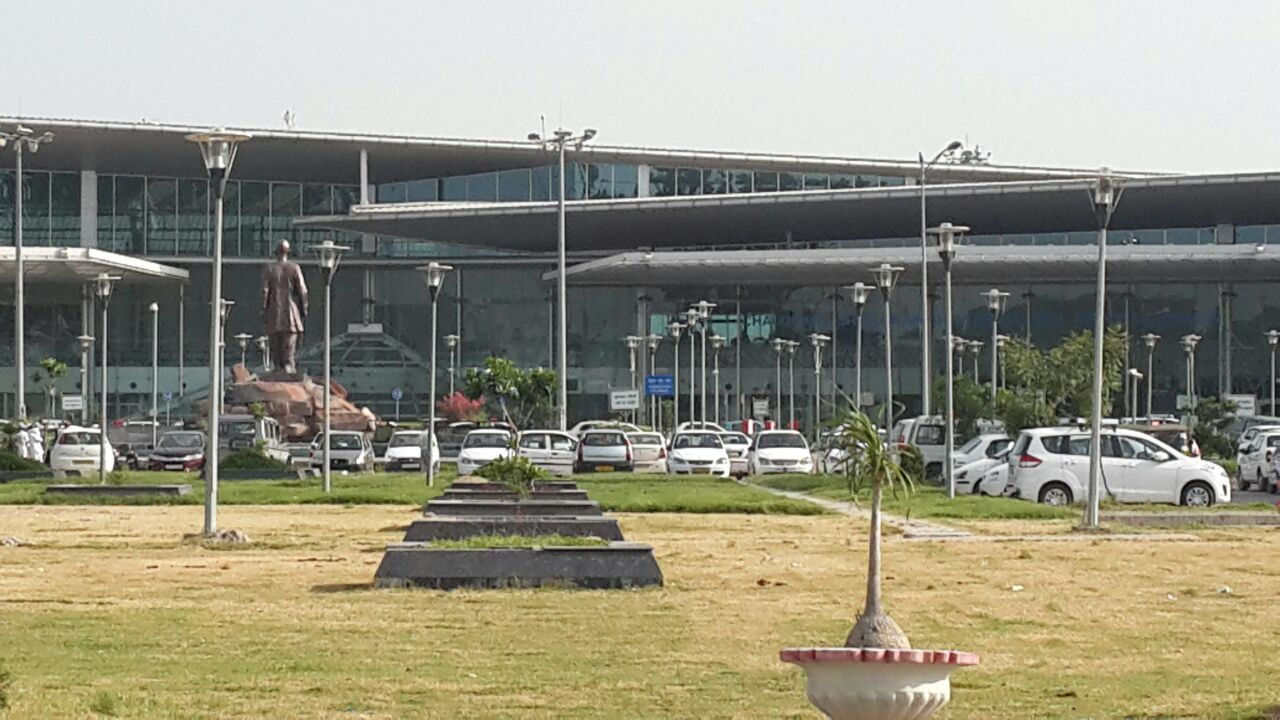 Partial image of CCS International airport